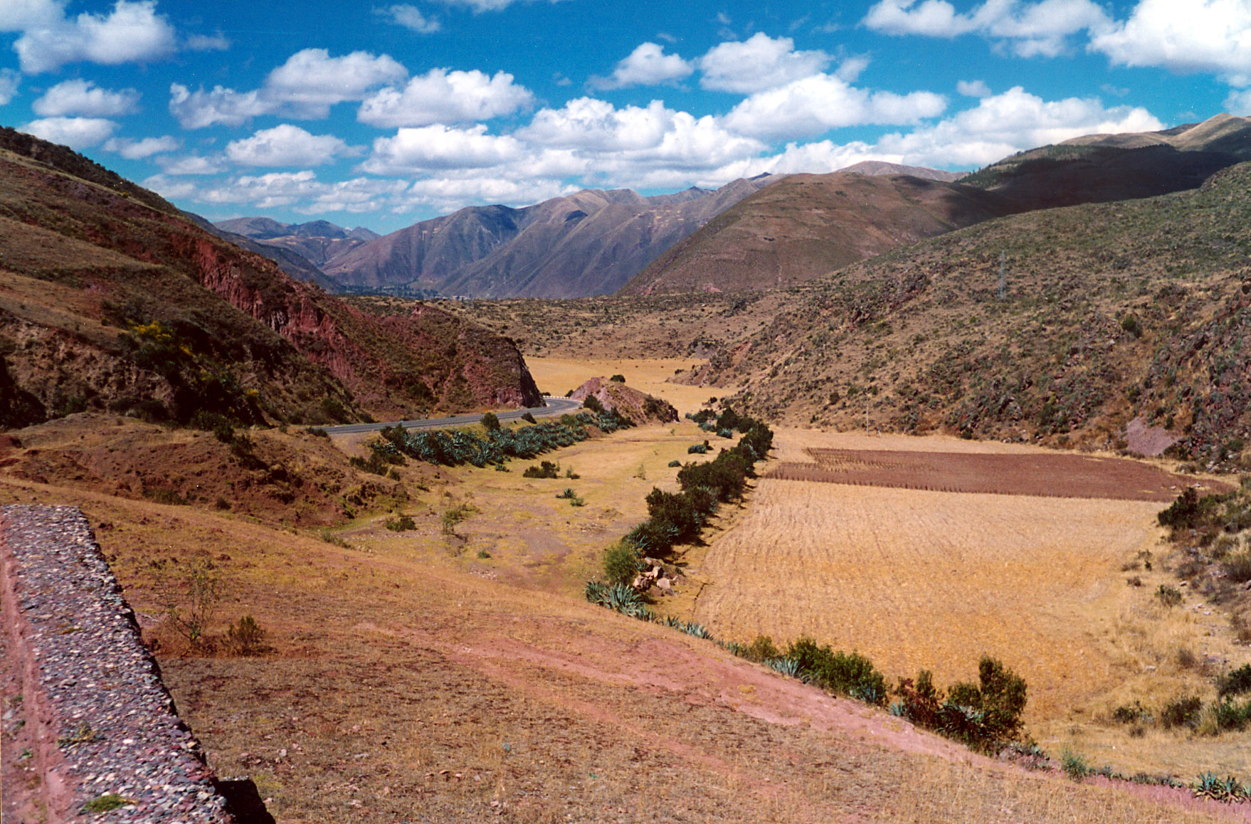 Rumicolca, 31 km SE from Cusco, Peru. The photo was taken by Håkan Svensson (Xauxa) in June 2002.